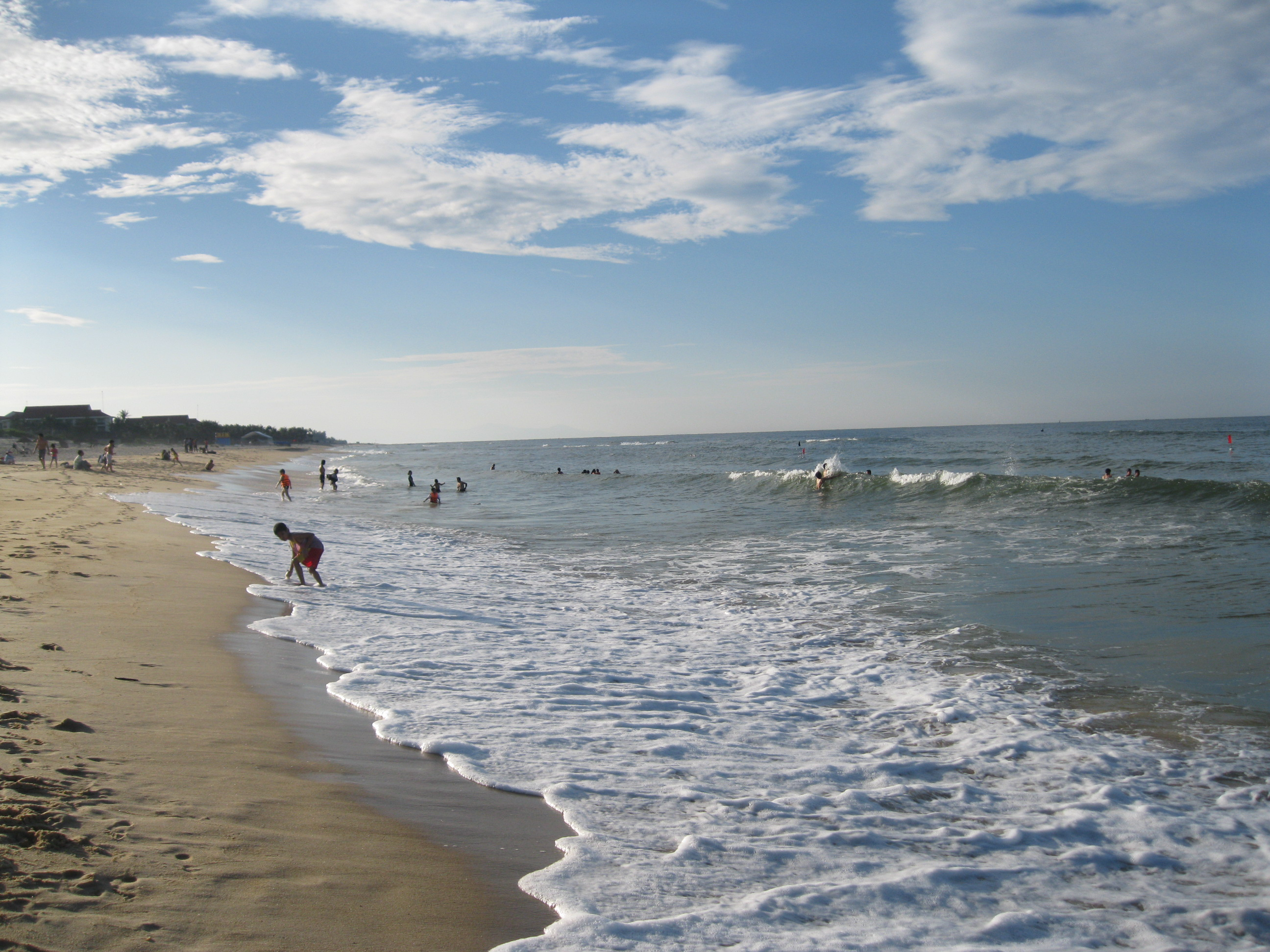 Bao Ninh Beach, Dong Hoi City, Vietnam. The beach is near the 4-star Sun Spa Resort.